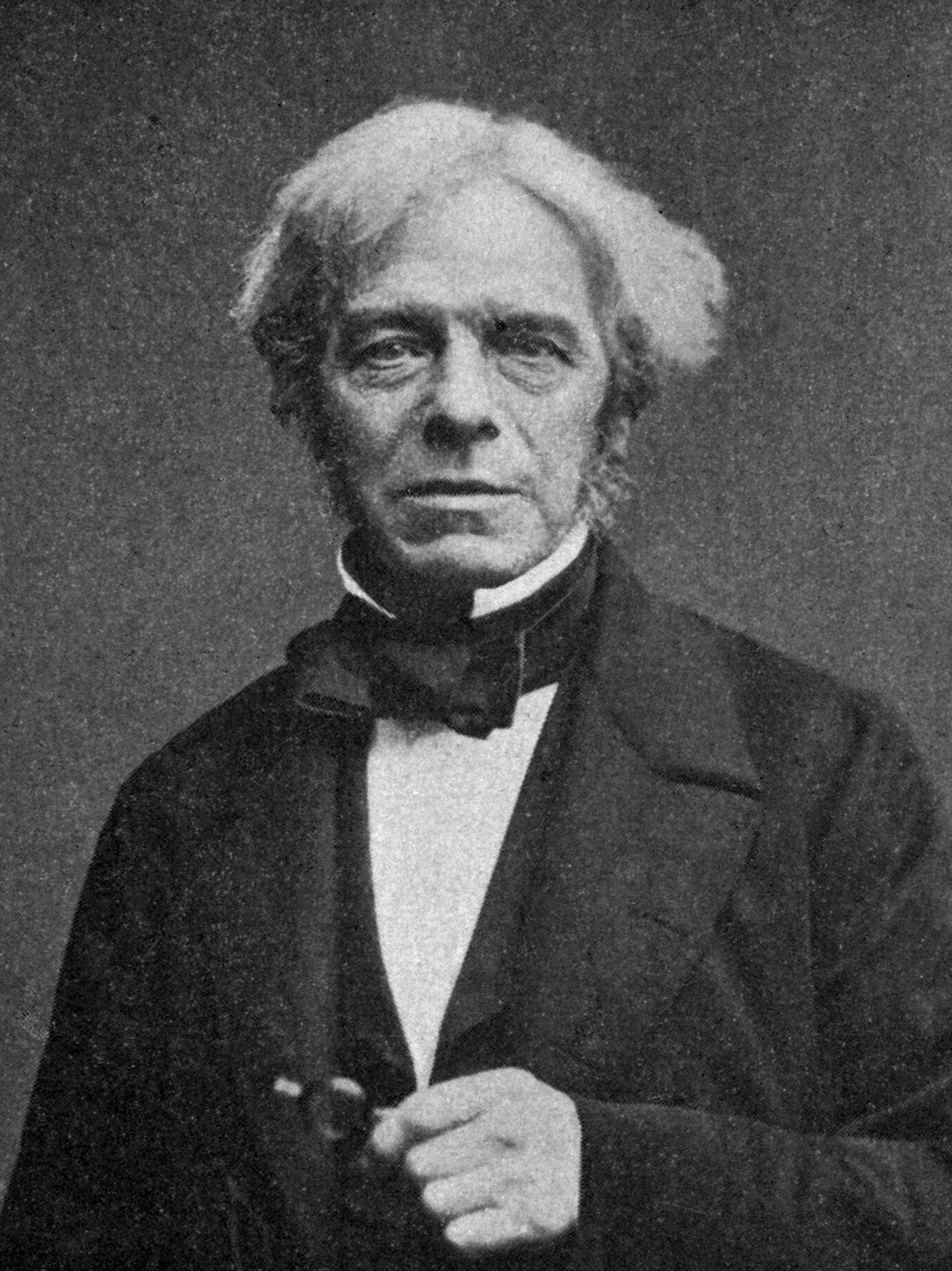 Photograph of Michael Faraday